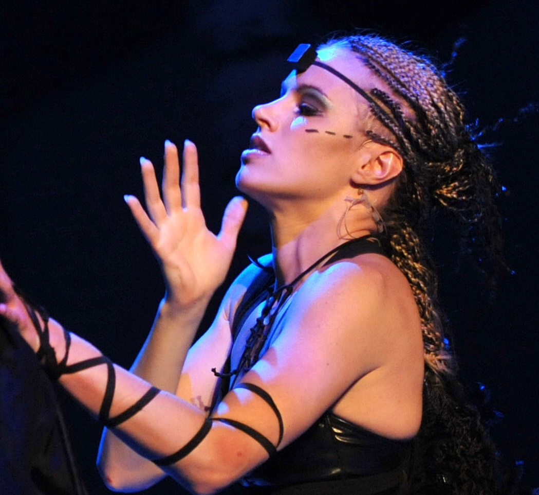 Johana Gazdíková